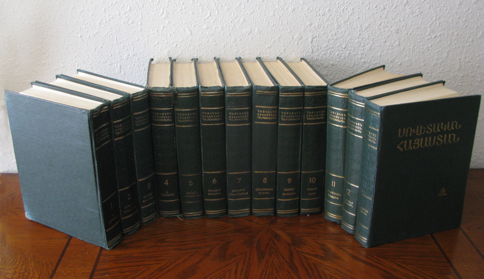 This is an image of my collection of the Soviet Armenian Encyclopedia (also alternatively translated as Armenian Soviet Encyclopedia). It includes 12 volumes (published 1974-1986) as well as a supplementary volume, Sovetakan Hayastan (Soviet Armenia, published 1987).